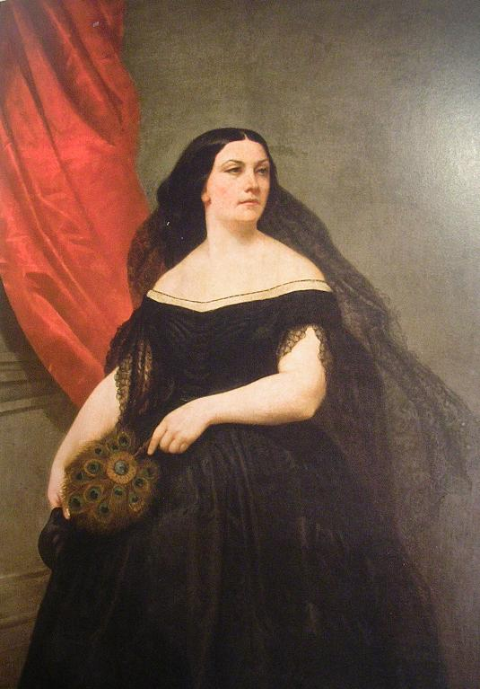 Portrait of Italian opera singer Giulia Grisi (1811-1869) as Donna Anna in "Don Giovanni" by Mozart